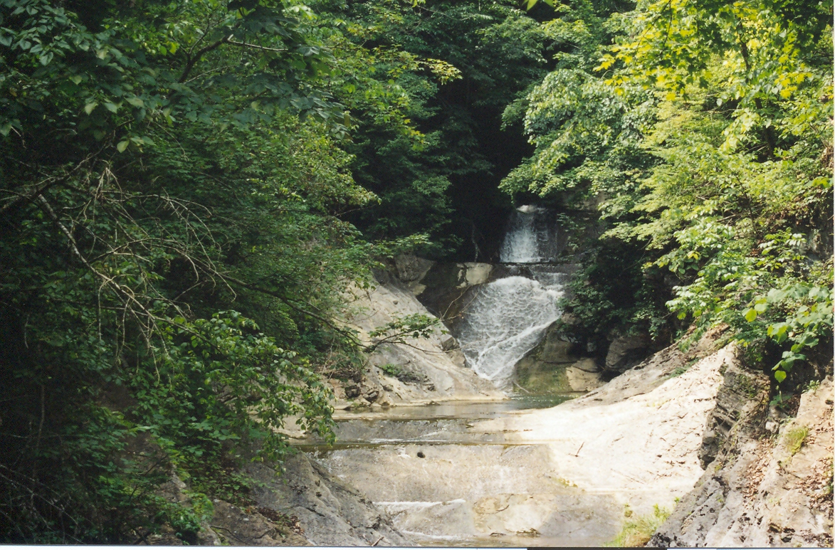 Lace Falls, near Natural Bridge (Virginia)